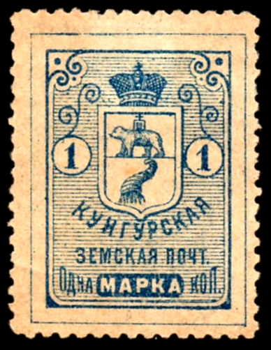 Kungar Zemstvo stamp, Russia.